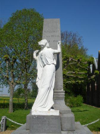 The monument aux morts at Soyécourt in the Somme. A work in marble entitled “Histoire écrivant” which was marketed by the marbriers Établissements Rombaux-Roland and can be seen throughout France. This monument was erected in 1925; the municipal council had decided on a monument on the 8th December 1924 and Établissements Rombaux-Roland executed it in August 1925 for 17,675 francs. A major contribution to the cost was made by the town of Châtellerault who had “adopted” Soyécourt. Établissements Rombaux-Roland of Jeumont were a major foundry and marketed an extensive range of statues through a comprehensive catalogue